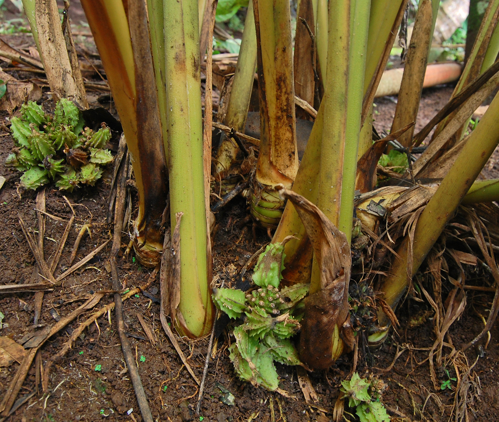 Fruit spikes of Amomum cf. dealbatum, near the base of its stem. From Sukabumi, West Java.